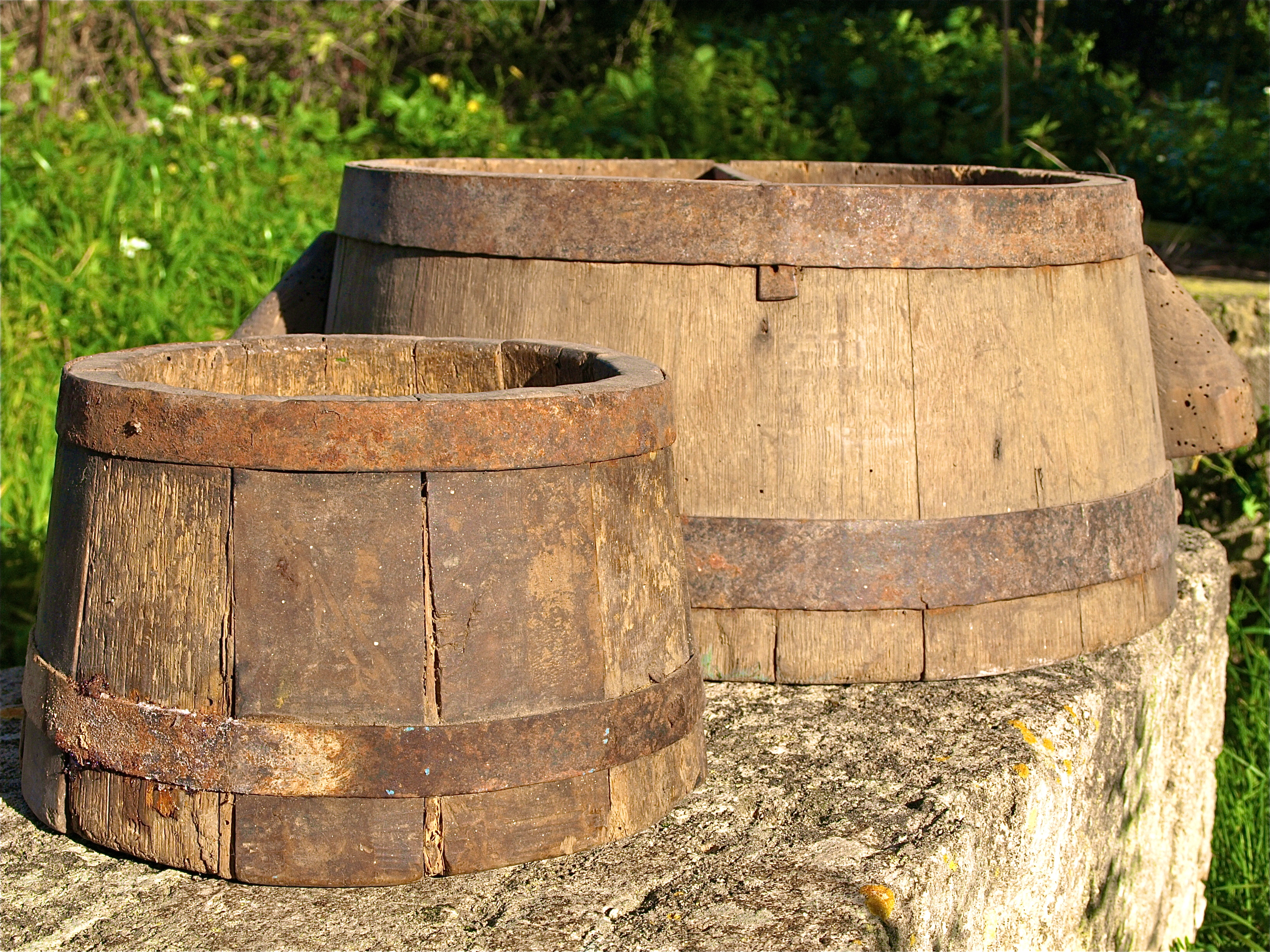 Barcella is a unity of mesurement of grains equivalent to 11,723 litres, or six almuds in Mallorca Place Lloc/Place:Mallorca